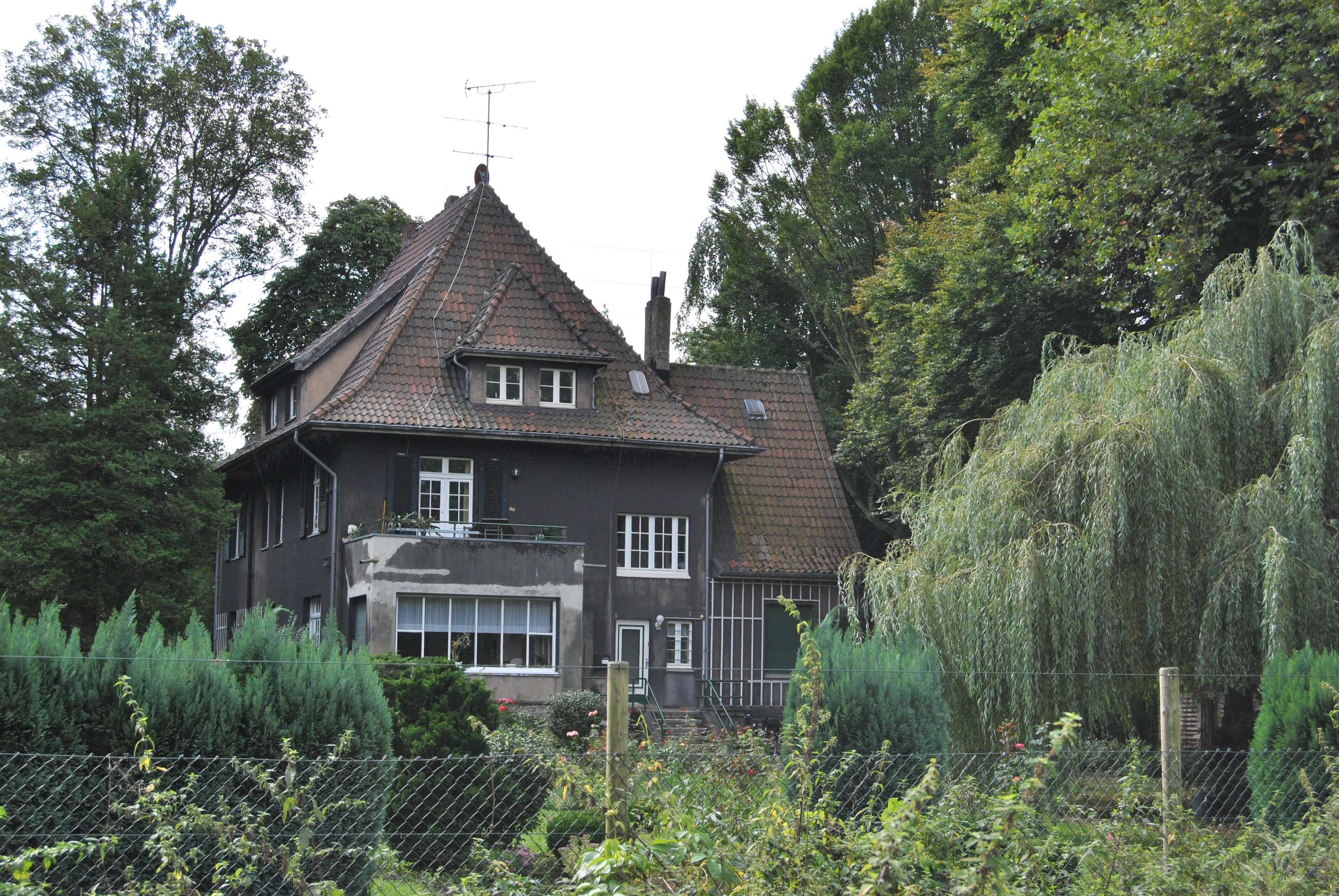 This photograph was taken with a Nikon D3000 This image shows a heritage building in Germany, located in the North Rhine-Westphalian city Duisburg. Das ehemalige Beamtenwohnhaus im heutigen Diergardtpark in Duisburg-Hochemmerich